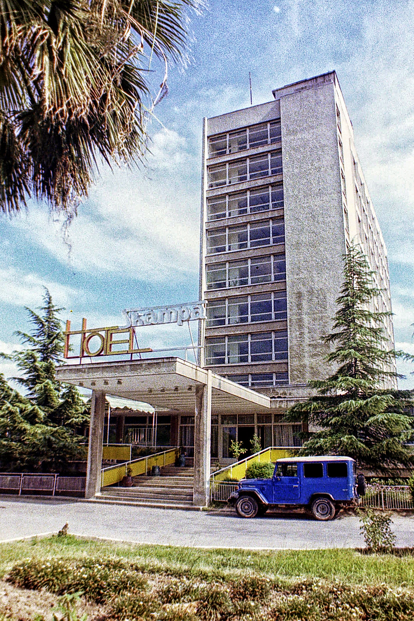 The Hotel Skampa in Elbasan, Albania - before 1991 the only (state-run) hotel of the city; designed by architect Valentina Pistoli